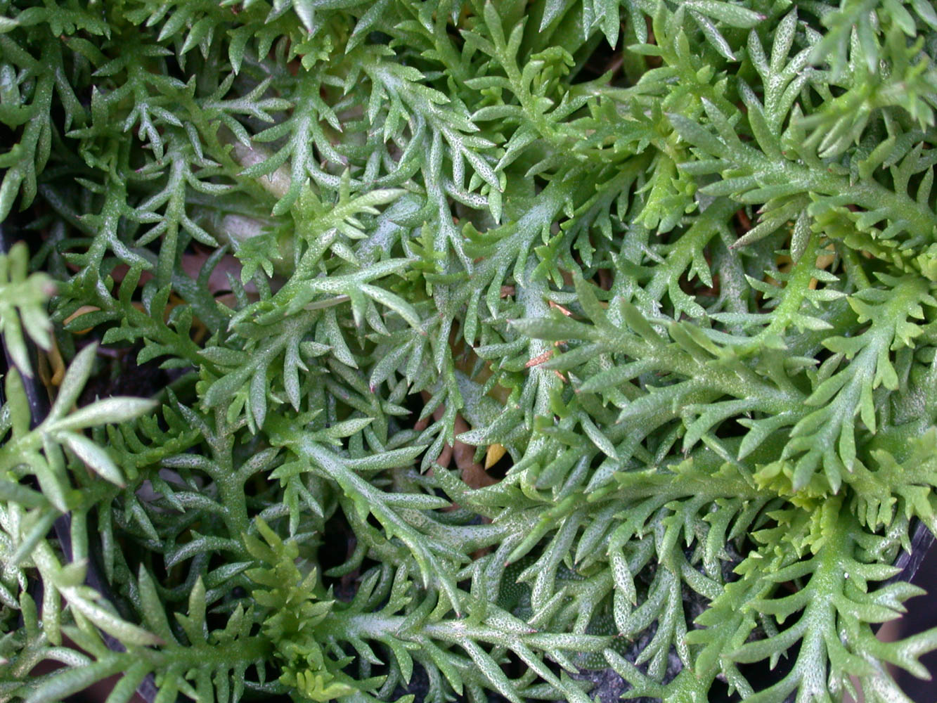 File name :DSCN3899.JPG File size :1.0MB(1092179Bytes) Shoot date :2004/10/04 10:47:10 Picture size :2048 x 1536 Resolution :72 x 72 dpi Number of bits :8bit/channel Protection attribute :Off Hide Attribute :Off Camera ID :N/A Model name :E995 Quality mode :FINE Metering mode :Patial Exposure mode :Programmed auto Flash :No Focal length :17.2 mm Shutter speed :1/25.4second Aperture :F3.6 Exposure compensation:-0.3 EV Fixed white balance :Auto Lens :Built-in Flash sync mode :N/A Exposure difference :N/A Flexible program :N/A Sensitivity :ISO100 Sharpening :Auto Curve mode :N/A Color mode :COLOR Tone compensation :AUTO Latitude(GPS) :N/A Longitude(GPS) :N/A Altitude(GPS) :N/A